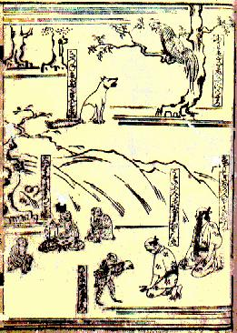 A woodblock print from the Kyoto Isoppu Monogatari (1659) illustrating the fable of the Cock and the Fox in the upper half and show Aesop in Japanese dress in the lower half. (Tsukuba University Library)